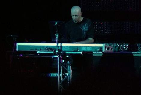 Jordan Rudess during a concert with Dream Theater.